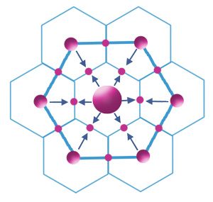 Christaller's second model of distribution of cities on space, according to the distance cost (transport) principle.